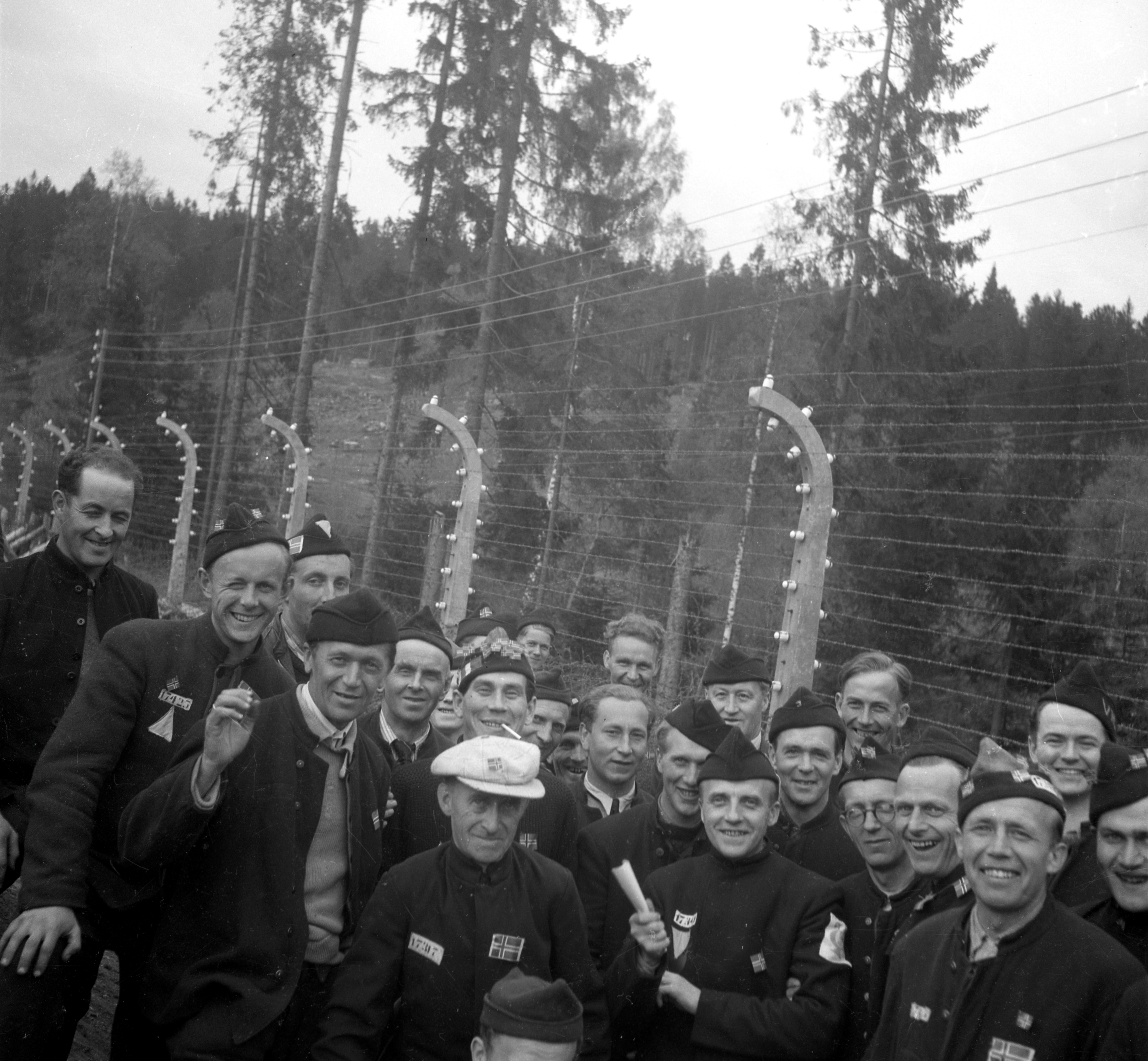 Norge fritt den 7 maj 1945 (Swedish, in